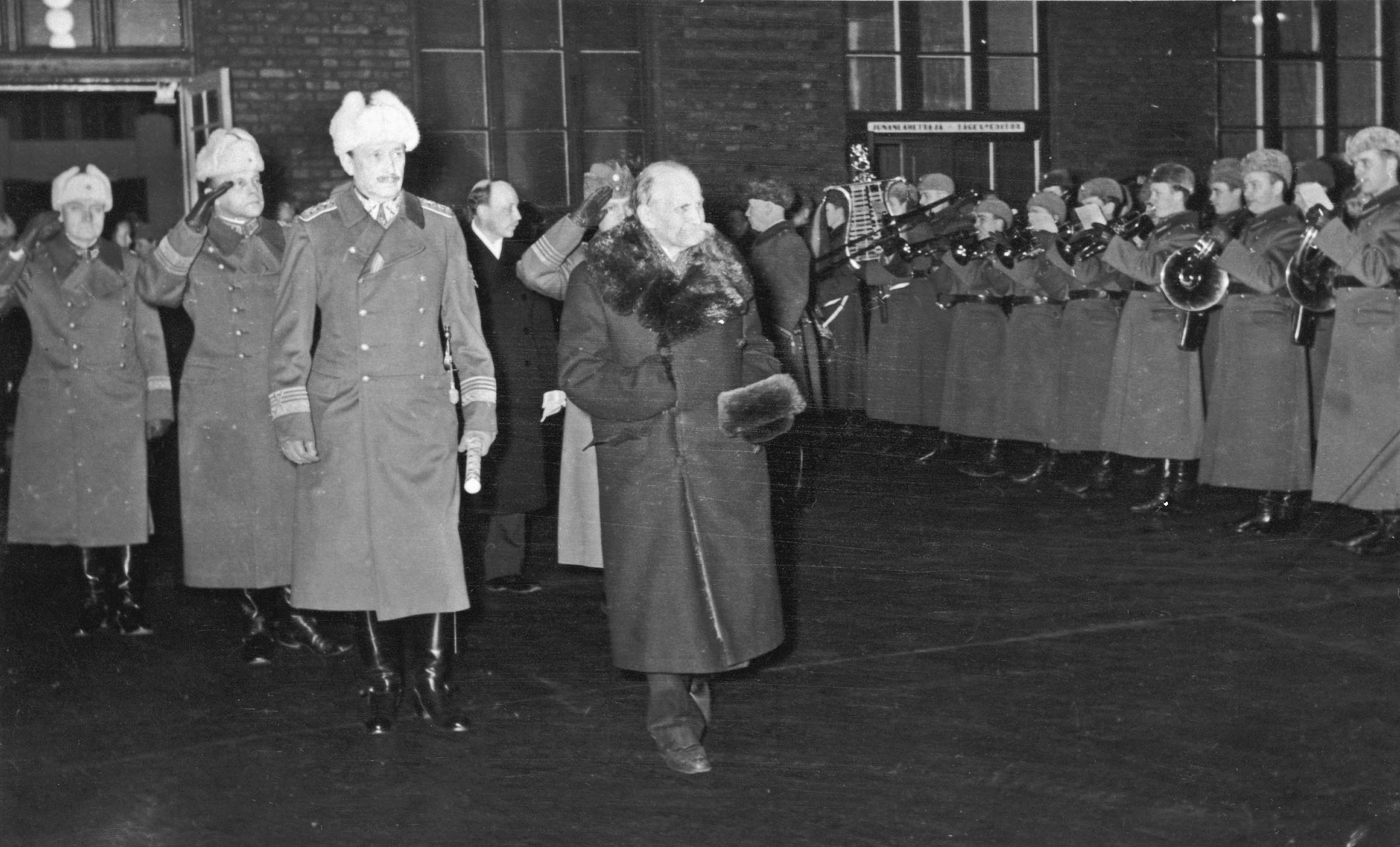 President of the republic of Finland Kyösti Kallio with Field Marshal Gustaf Mannerheim at Helsinki railway station on December 19, 1940. Behind them in dark suit is Risto Ryti, soon becoming the president of the republic. Lieutenant-General Erik Heinrichs (Chief of the General Staff) is to the left of Mannerheim and partly behind Kallio is Colonel Aladár Paasonen, his adjutant. Kallio had announced of resignation in November due to poor health and were to leave for Nivala, his home, for Christmas and retirement. The right hand of Kallio was paralysed after a heart attack in August, and has been tucked inside the coat. Few seconds after the photograph was taken, Kallio had another heart attack and died (according to the popular version) in the arms of Mannerheim as the band was playing Porilaisten marssi.